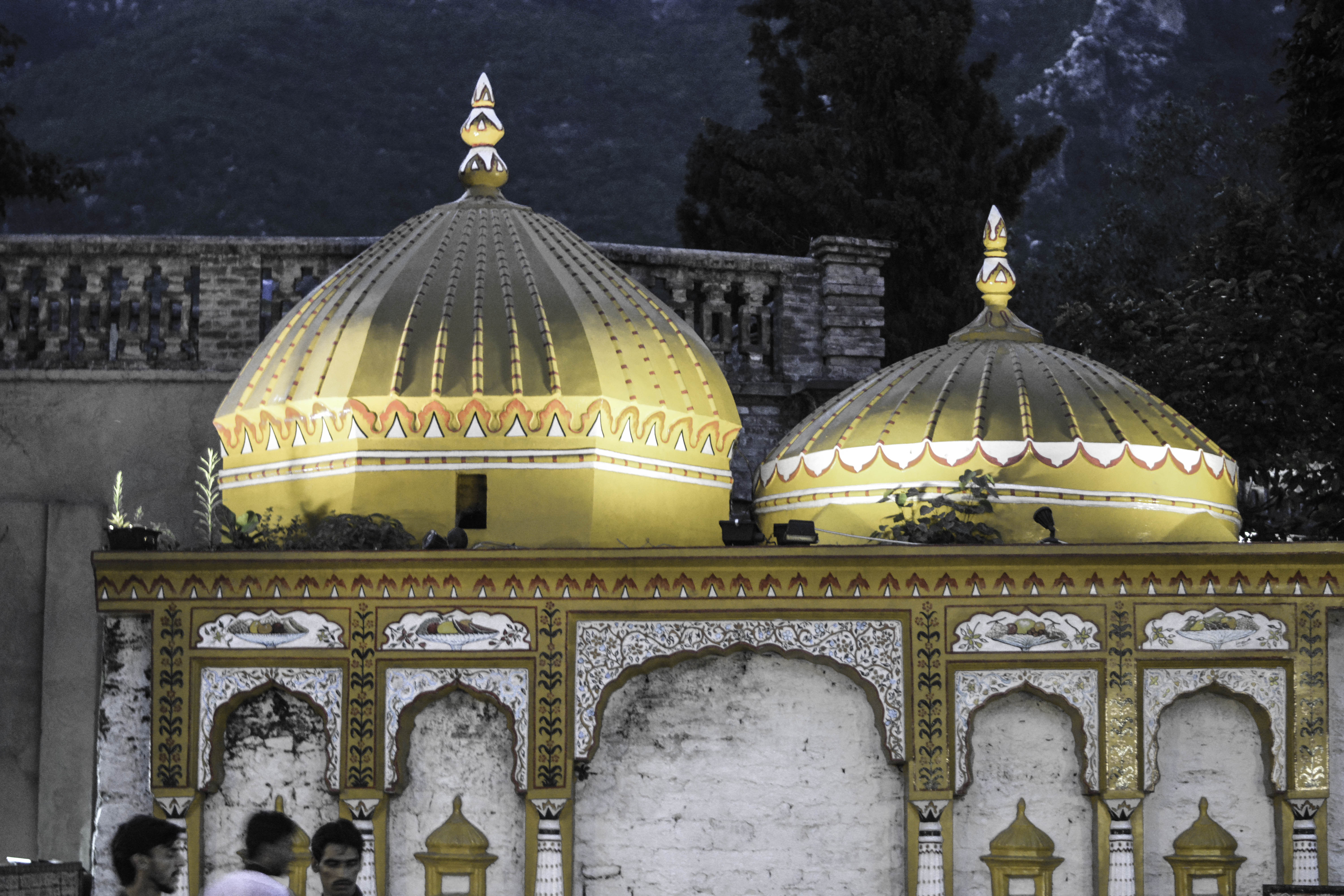 Gurdwara in Saidpur, Islamabad